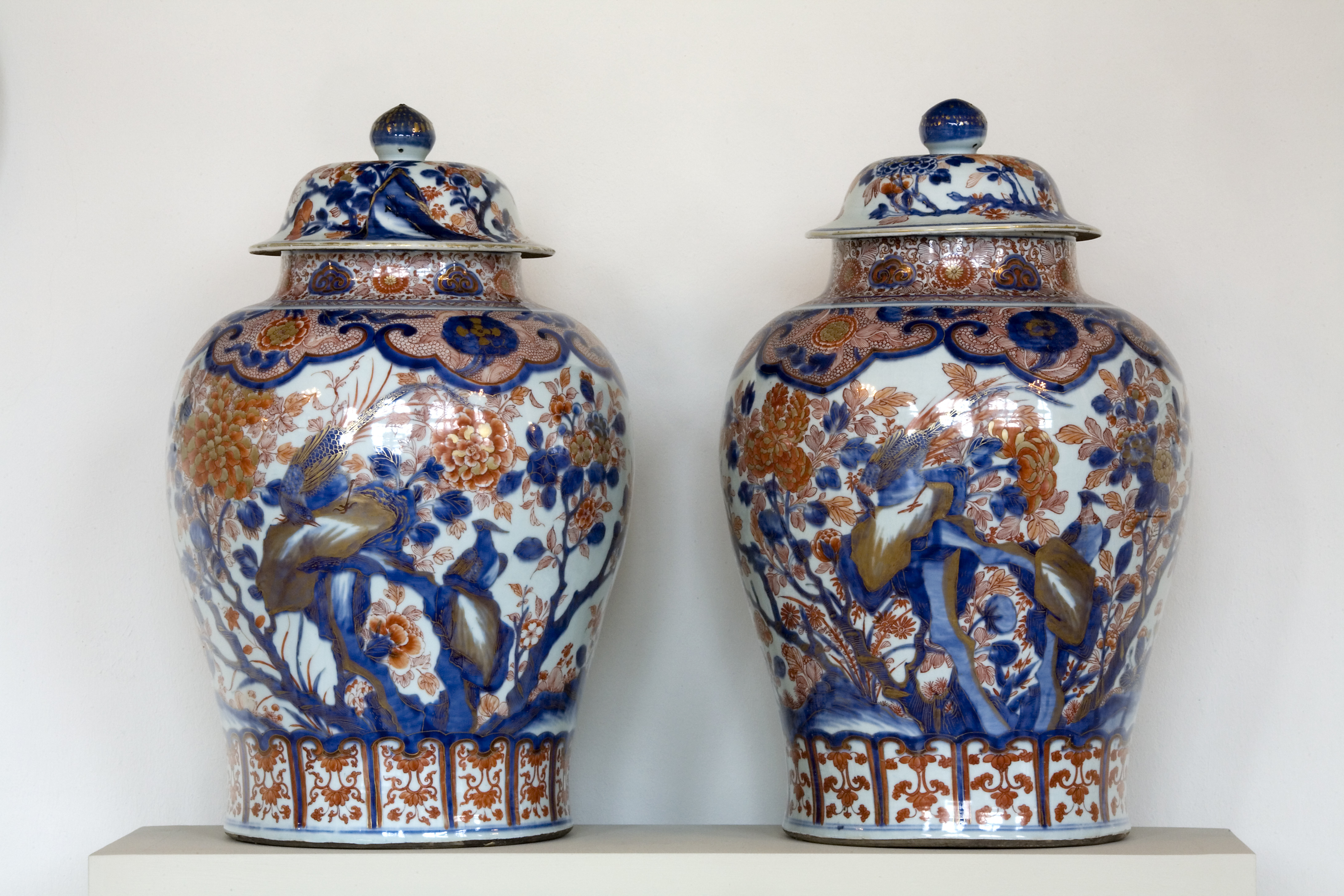 Chinese Imari porcelain vases of the Kangxi period (1662-1722) Porcelain Museum in the Art Collection, Dresden, Germany